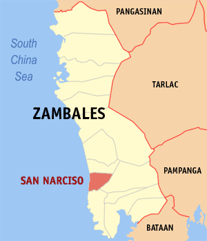 Map of Zambales showing the location of San Narcisco